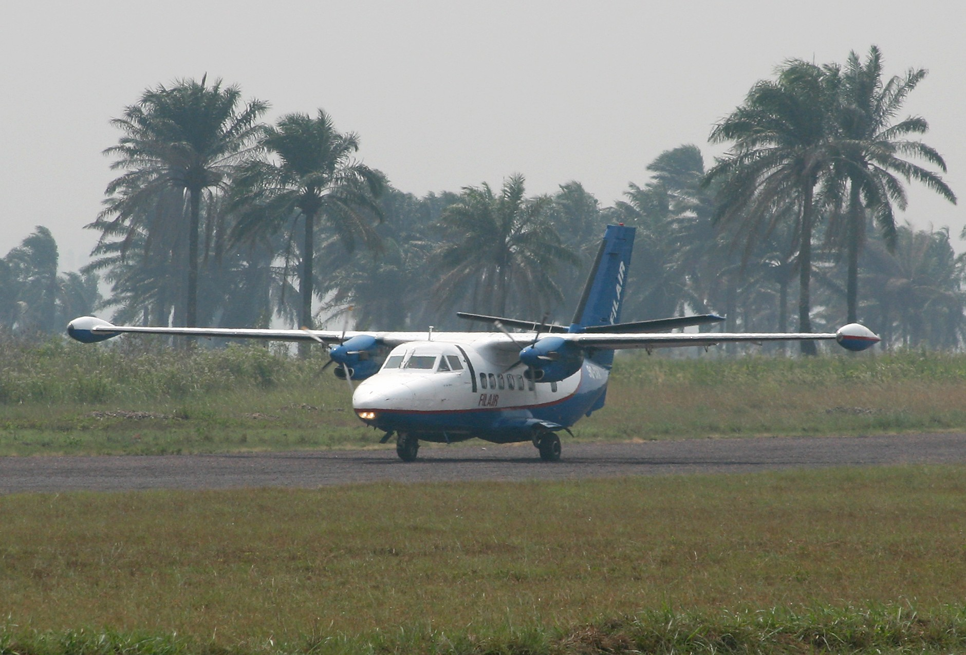 Filair Let L-410 Turbolet registration number 9Q-CDN at Kikwit Airport, Democratic Republic of Congo